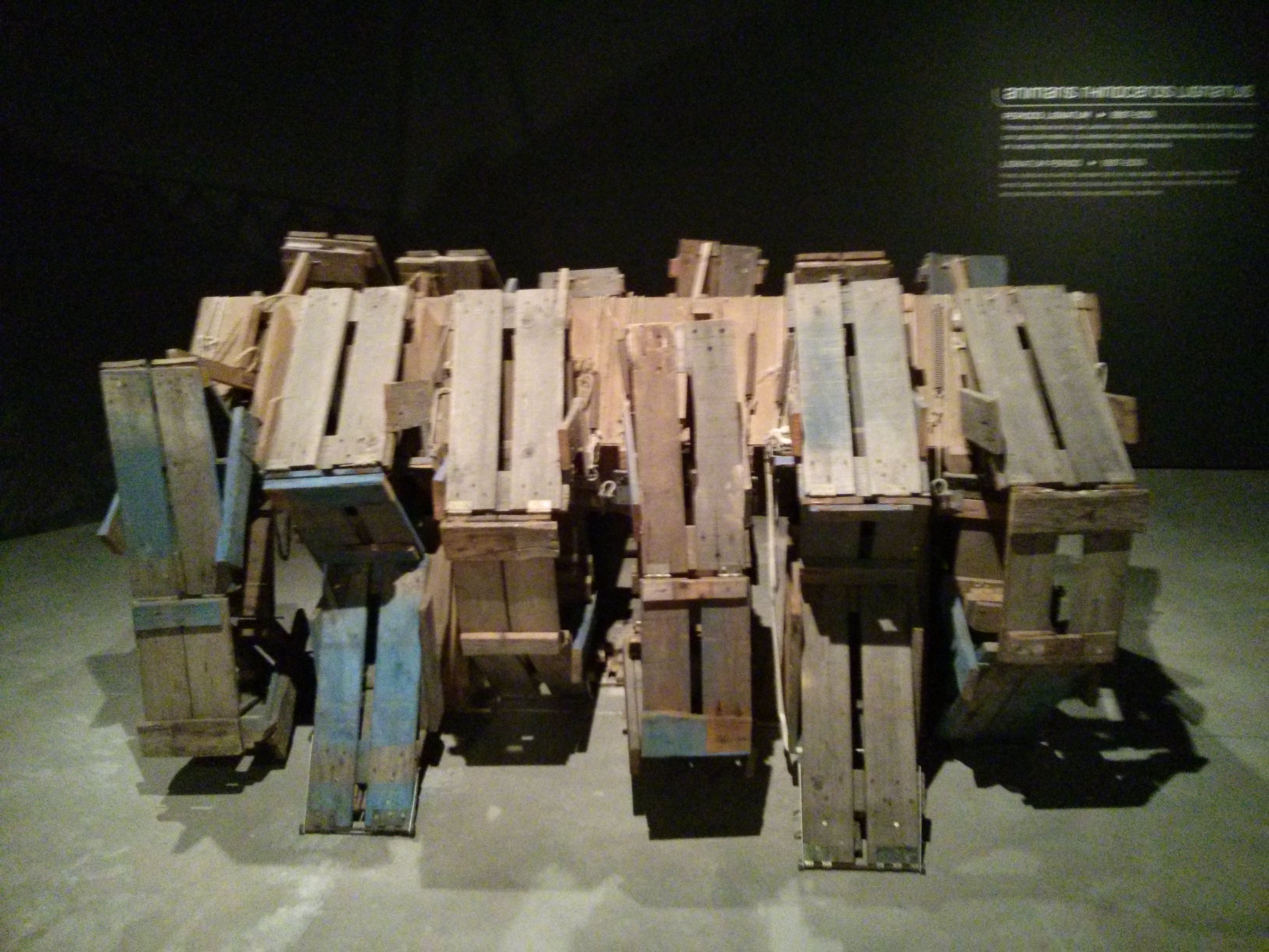 Wooden Sculture of Theo Jansen called "Animaris Rhinoceros Lignatus". This photo was taken in the exhibition in Madrid at 2015.